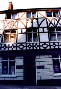 Norwich Buddhist Centre exterior: Norwich, Norfolk, NR2 4SE